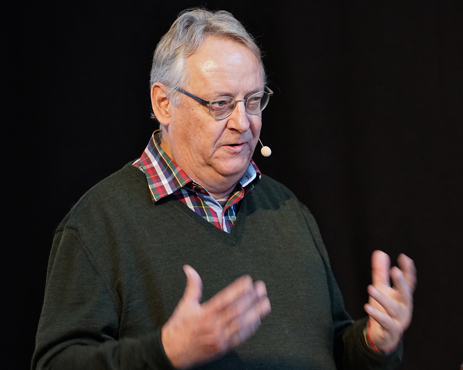 Niels Peter Stilling - Danish historian, writer and former museum curator at Søllerød Museum - at the historic event "Historiske Dage 2019", Copenhagen, Denmark